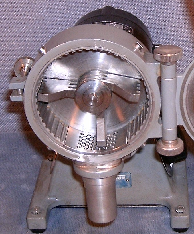 A Glen Creston Stanmore tabletop hammer mill. The input hopper is part of the front door, open in this shot to show the inner mechanism and not visible in this cropped view. The outlet has a mesh to determine the maximum particle size.